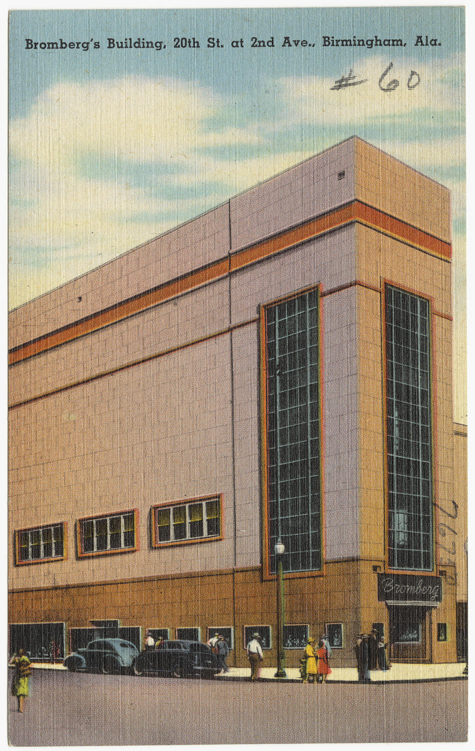 File name: 06_10_012828 Title: Bromberg's Building, 20th St. at 2nd Ave., Birmingham, Ala. Created/Published: Date issued: 1930 - 1945 (approximate) Physical description: 1 print (postcard) : linen texture, color ; 5 1/2 x 3 1/2 in. Genre: Postcards Subject: Commercial facilities Notes: Title from item. Collection: The Tichnor Brothers Collection Location: Boston Public Library, Print Department Rights: No known restrictions